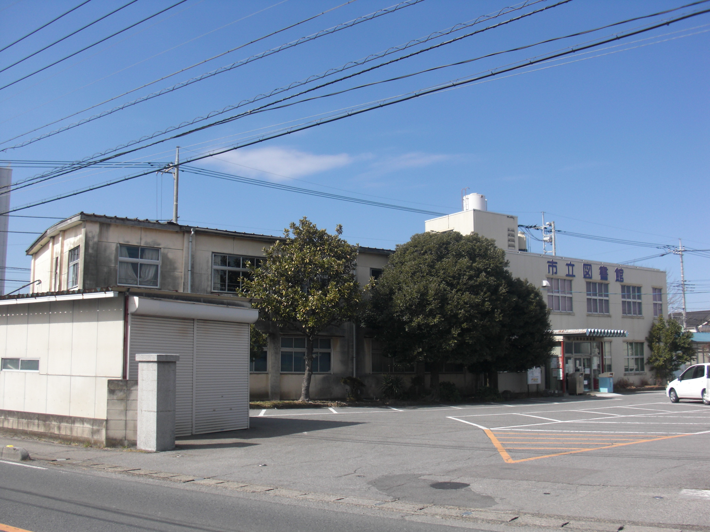 This is the Misato Municipal Library in Misato city, Saitama, Japan.